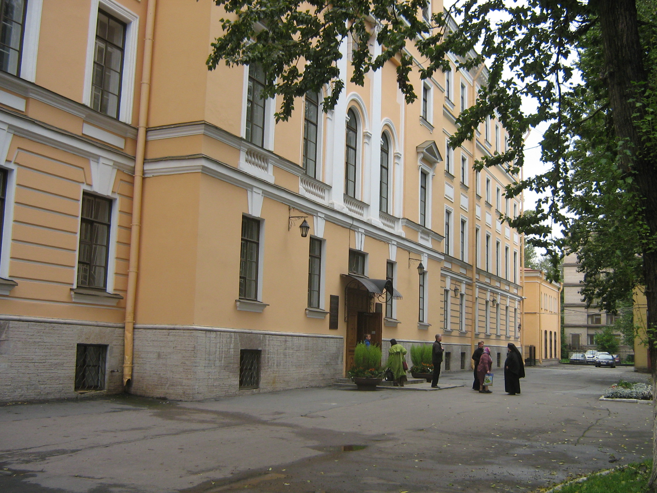 Saint Petersburg (Russia), Alexander Nevsky Lavra, Saint Petersburg Theological Academy.